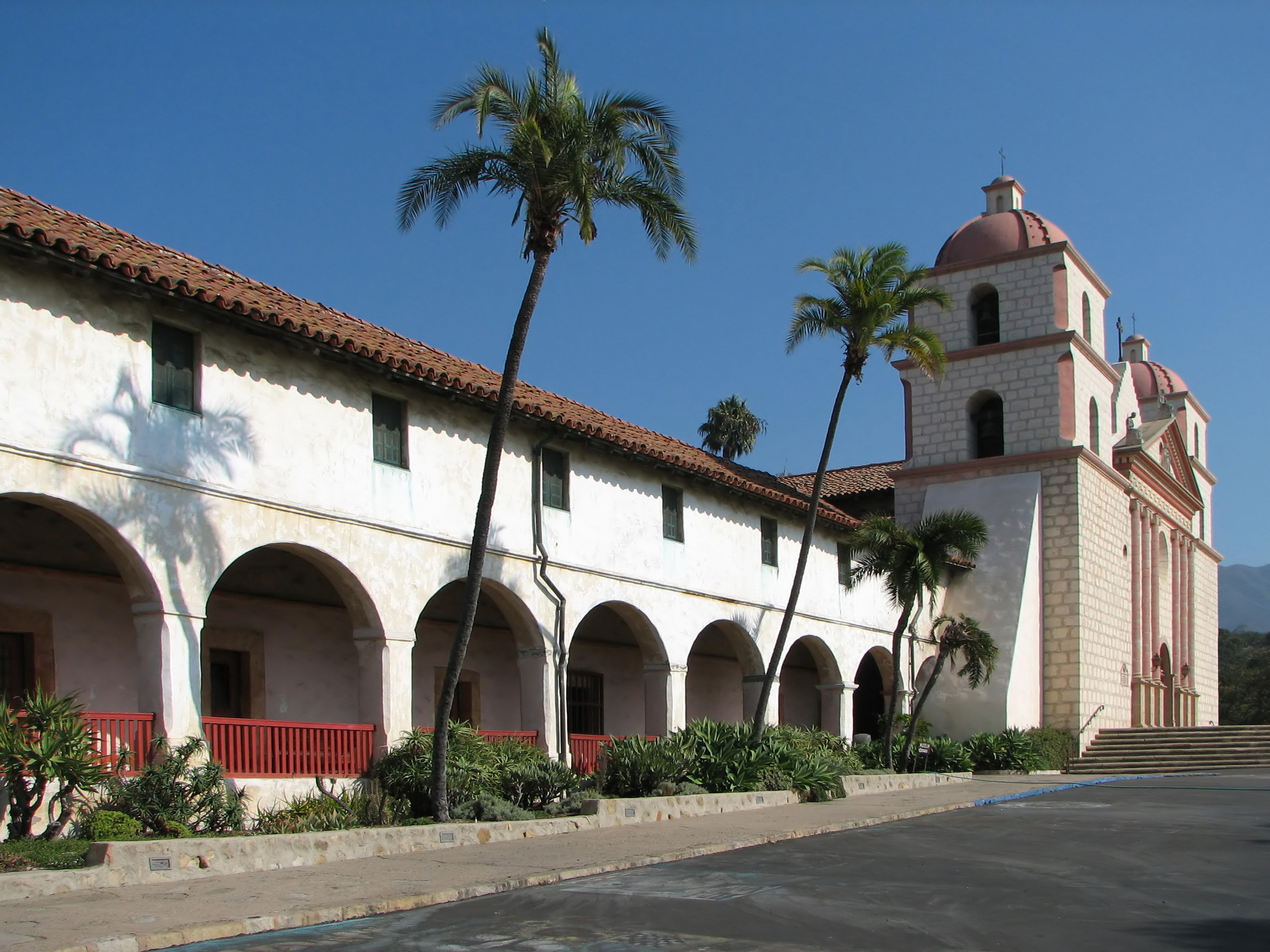 Mission Santa Barbara, Santa Barbara, California, USA